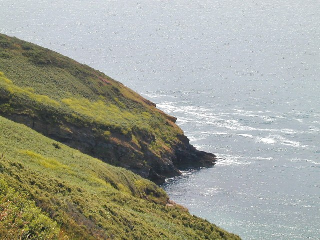 Zone Point, seen looking south-east from the coastal footpath, Cornwall